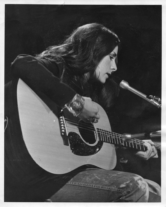 Lotti Golden on performs on radio tour, Nashville, TN, 1971.